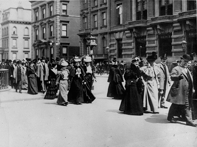 Easter Parade on Fifth Avenue, New York 1890